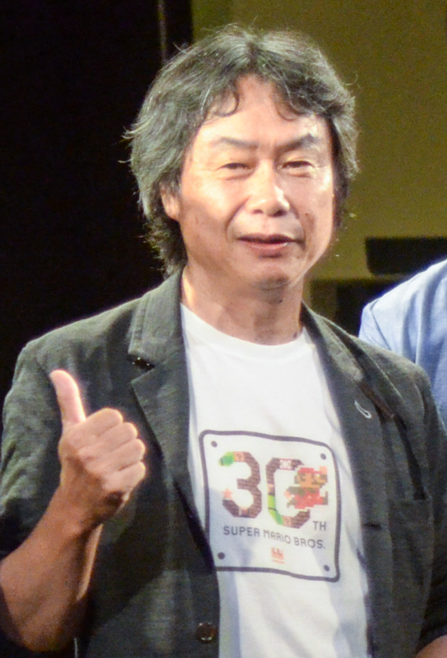 Takashi Tezuka, Shigeru Miyamoto and Koji Kondo - September 13th 2015 at the Super Mario 30th Anniversary Festival in the Club Music Exchange, Shibuya, Tokyo